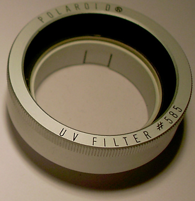 A Polaroid UV filter. The box text reads "POLAROID® UV FILTER #585 Fits any Polaroid Color Pack Camera with folding viewfinder, except Model 180". Picture taken and released into the public domain by User:Kallemax.